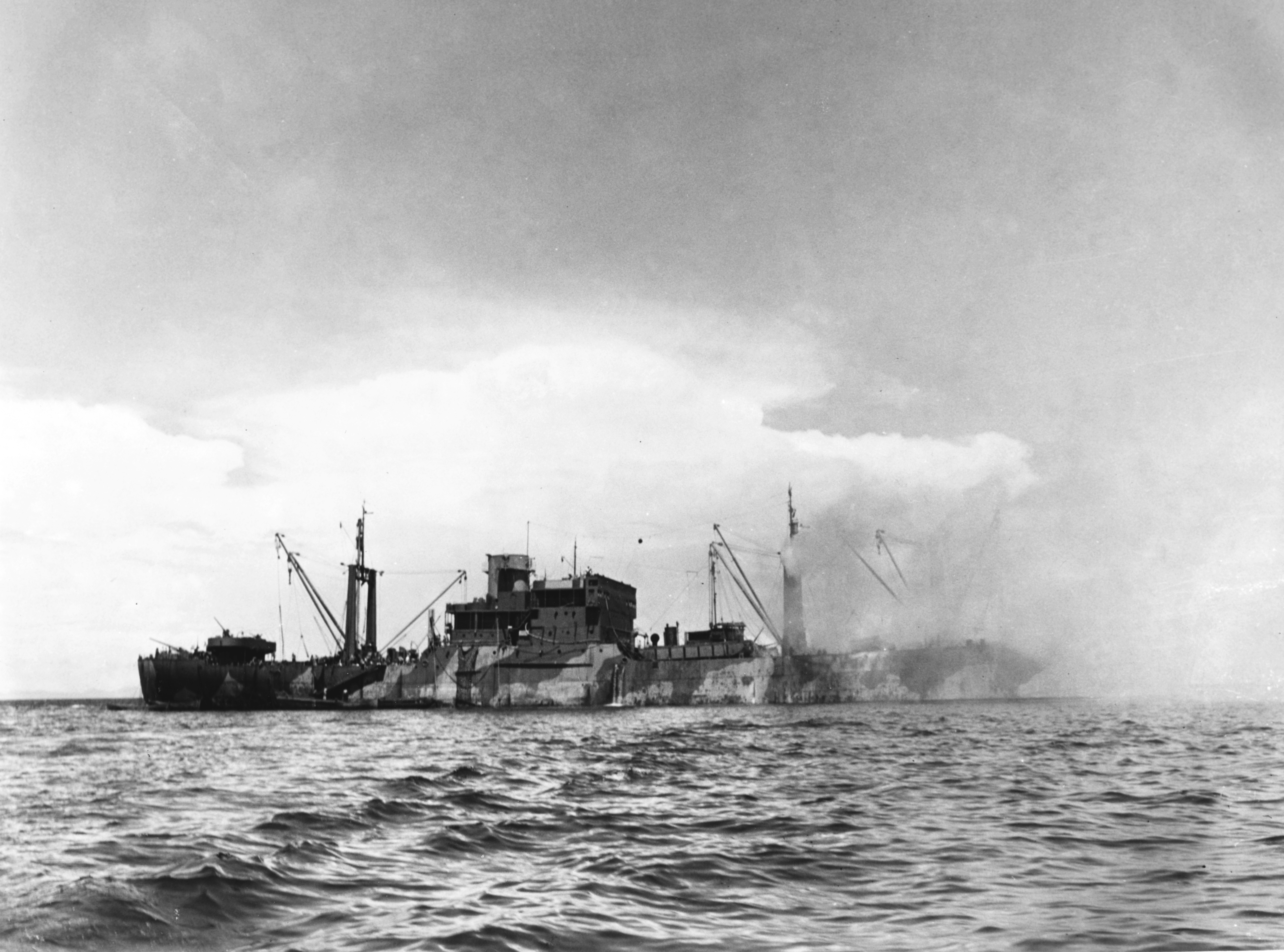 The U.S. Navy cargo ship USS Alchiba (AK-23) afire off Lunga Point, Guadalcanal, circa late November 1942, after she had been torpedoed in the forward holds. Alchiba was torpedoed on 28 November by the Japanese submarine I-16. Her crew ran her aground and delivered her cargo while fighting fires, which burned until 2 December. She was torpedoed again on 7 December, but was salvaged and reentered service.